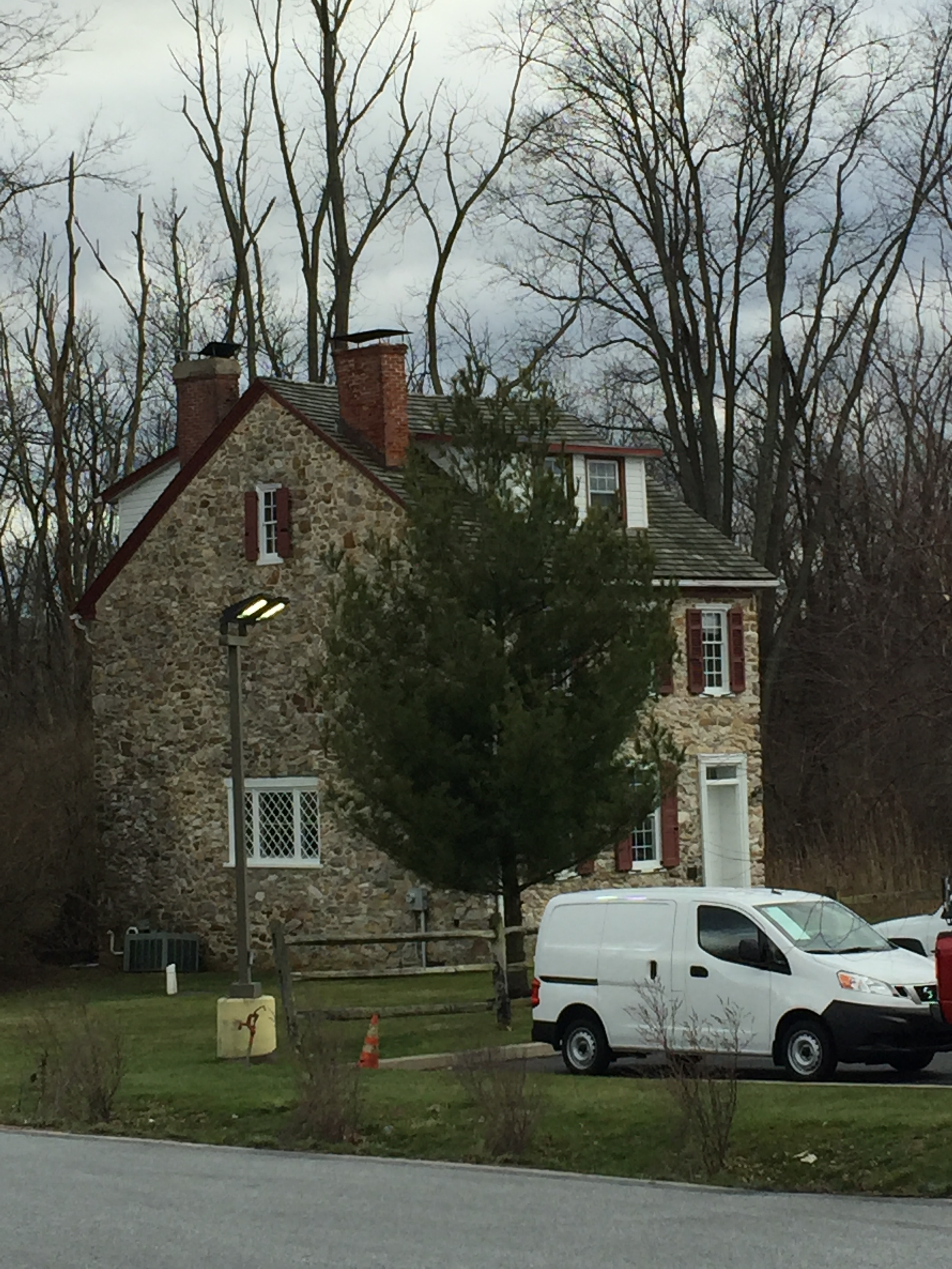 Whitford Lodge 2017